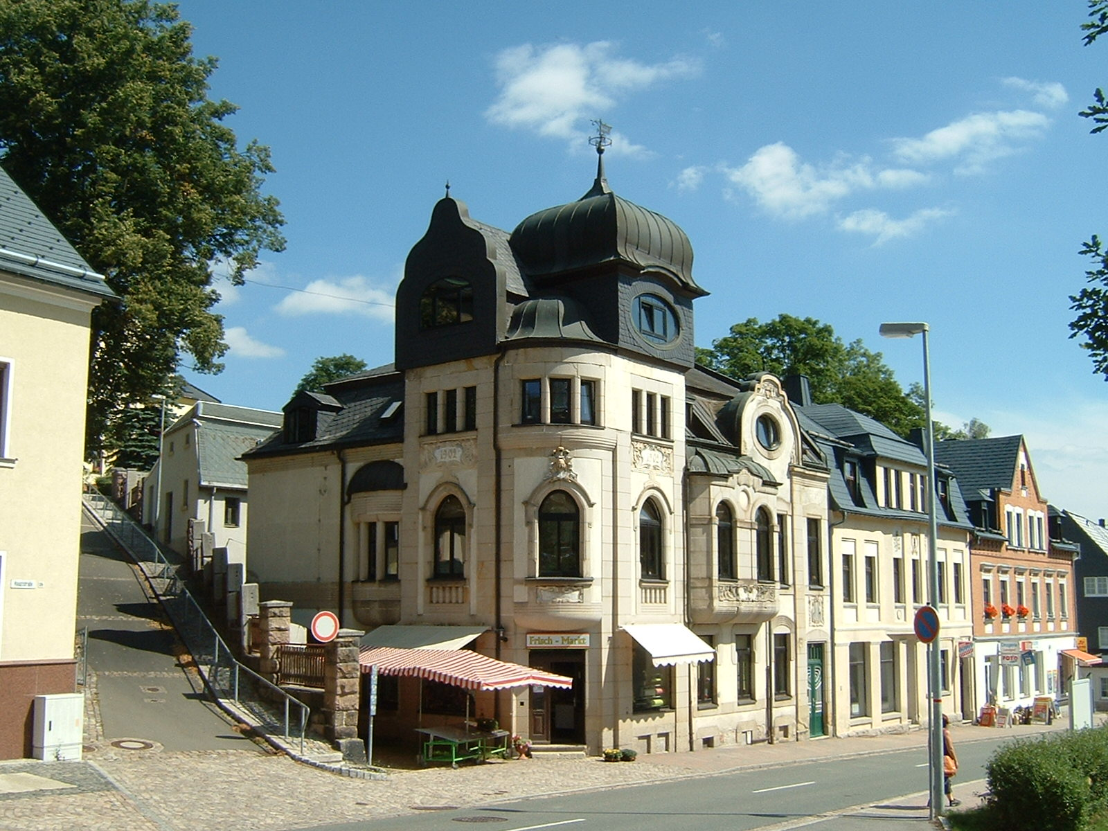 This is a photograph of an architectural monument.It is on the list of cultural monuments of Schönheide